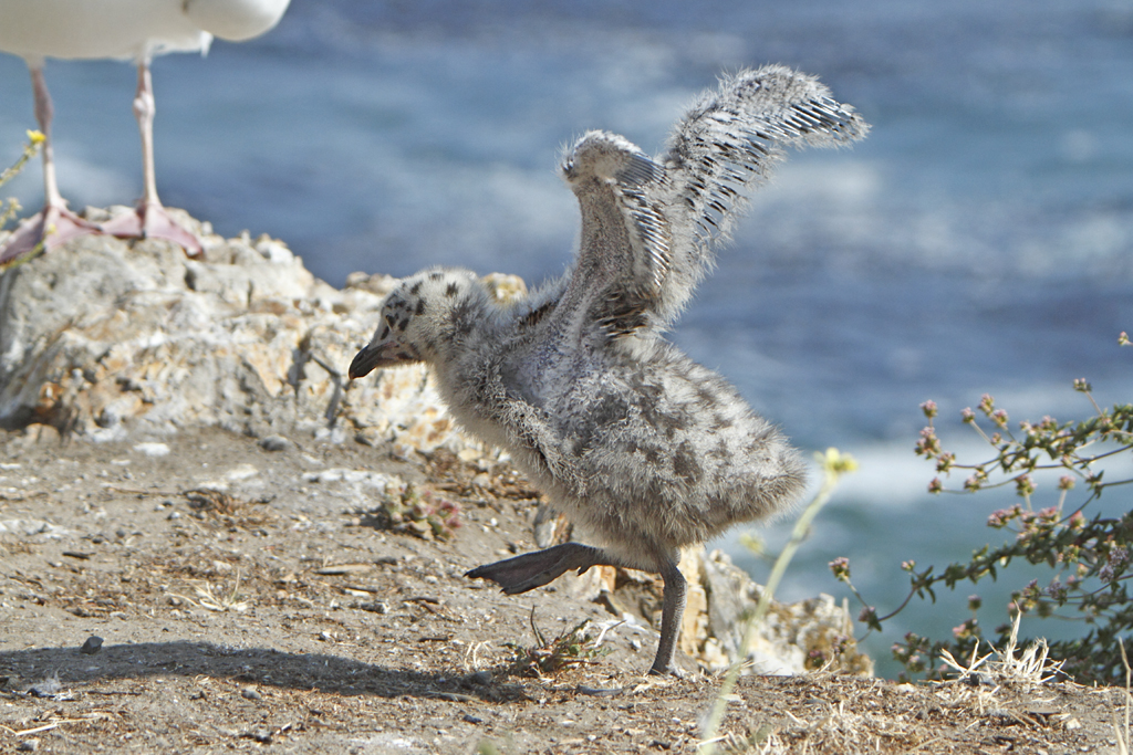 A Western Gull chick about 3 weeks old flapping its developing wings in San Luis Obispo, California, USA.